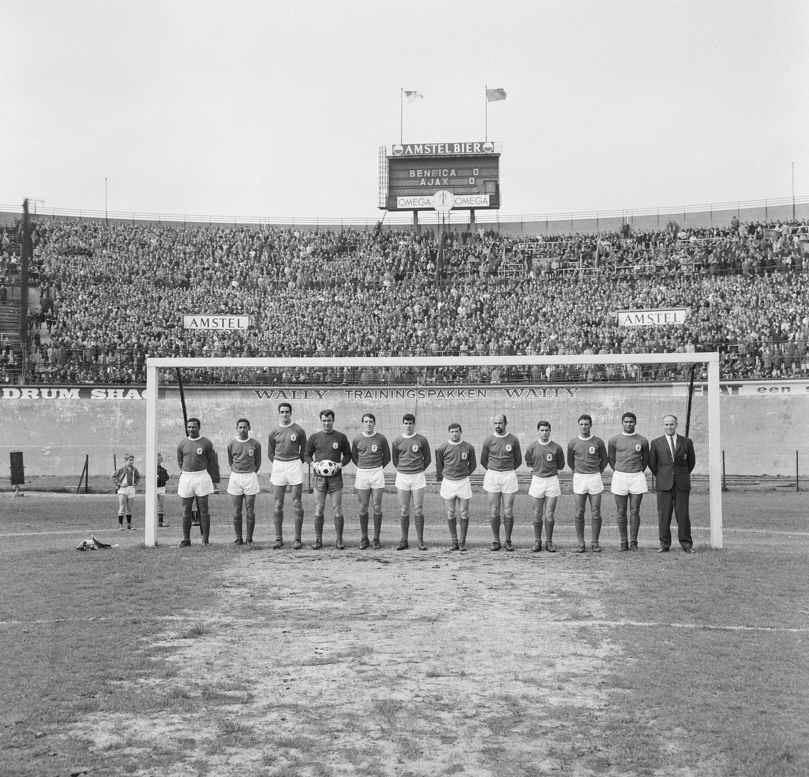 Benfica football team, 9 May 1965, Amsterdam Ajax Stadium (the Netherlands). Before the (friendly) match Ajax-Benfica (2-1)